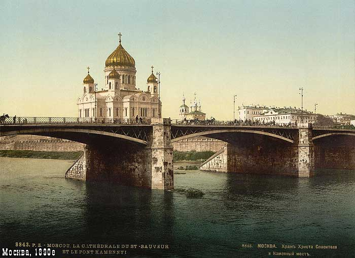 pre-revolutionaty russian postcard of Cathedral of Christ the Savior